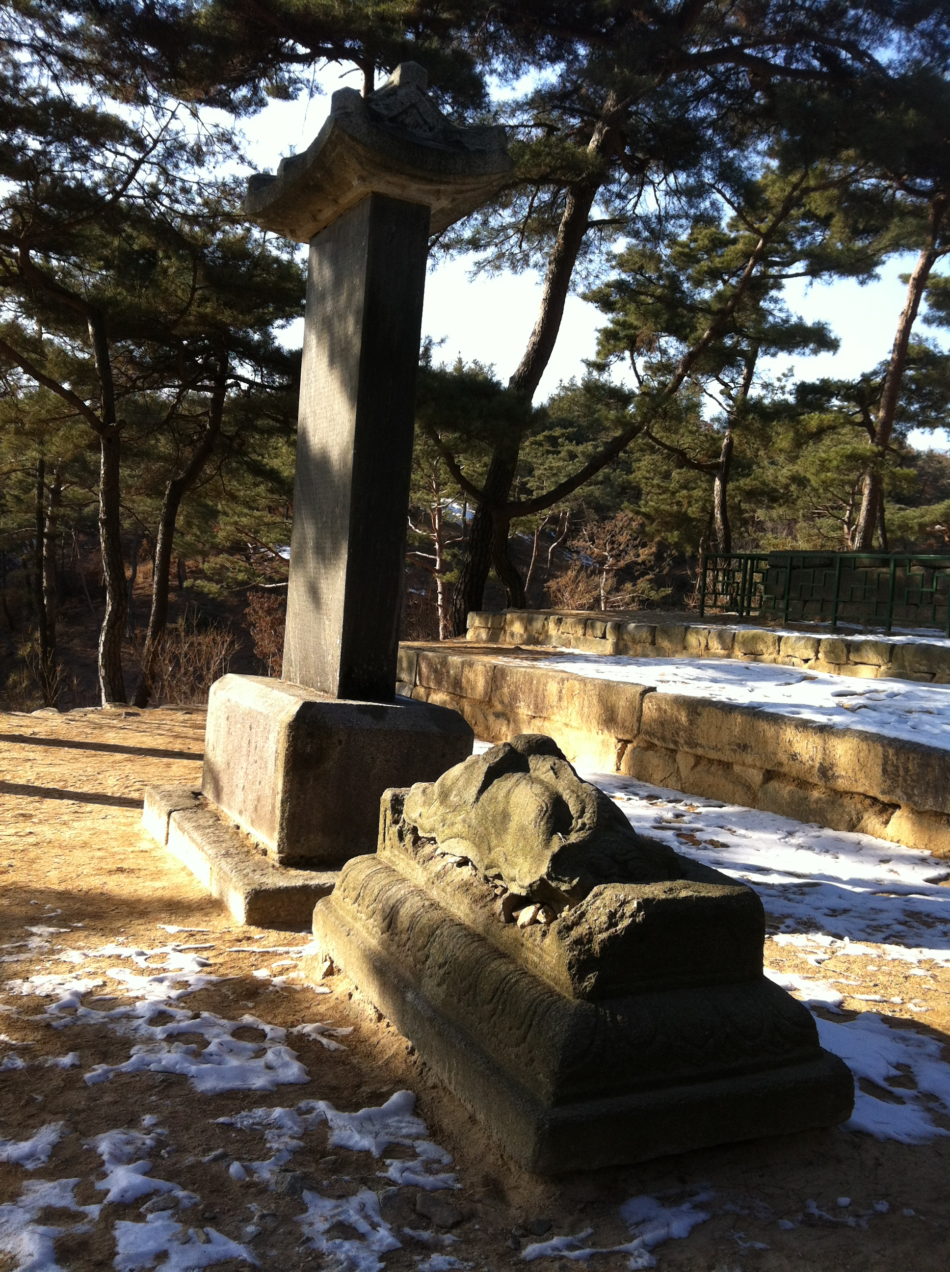 Stale of Muhak, Wangsa(king's teacher) in Taejo of Joseon period